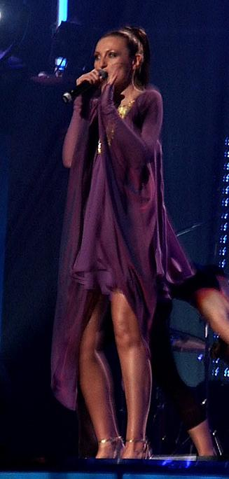 Polish singer Reni Jusis at ESKA Music Awards 2006